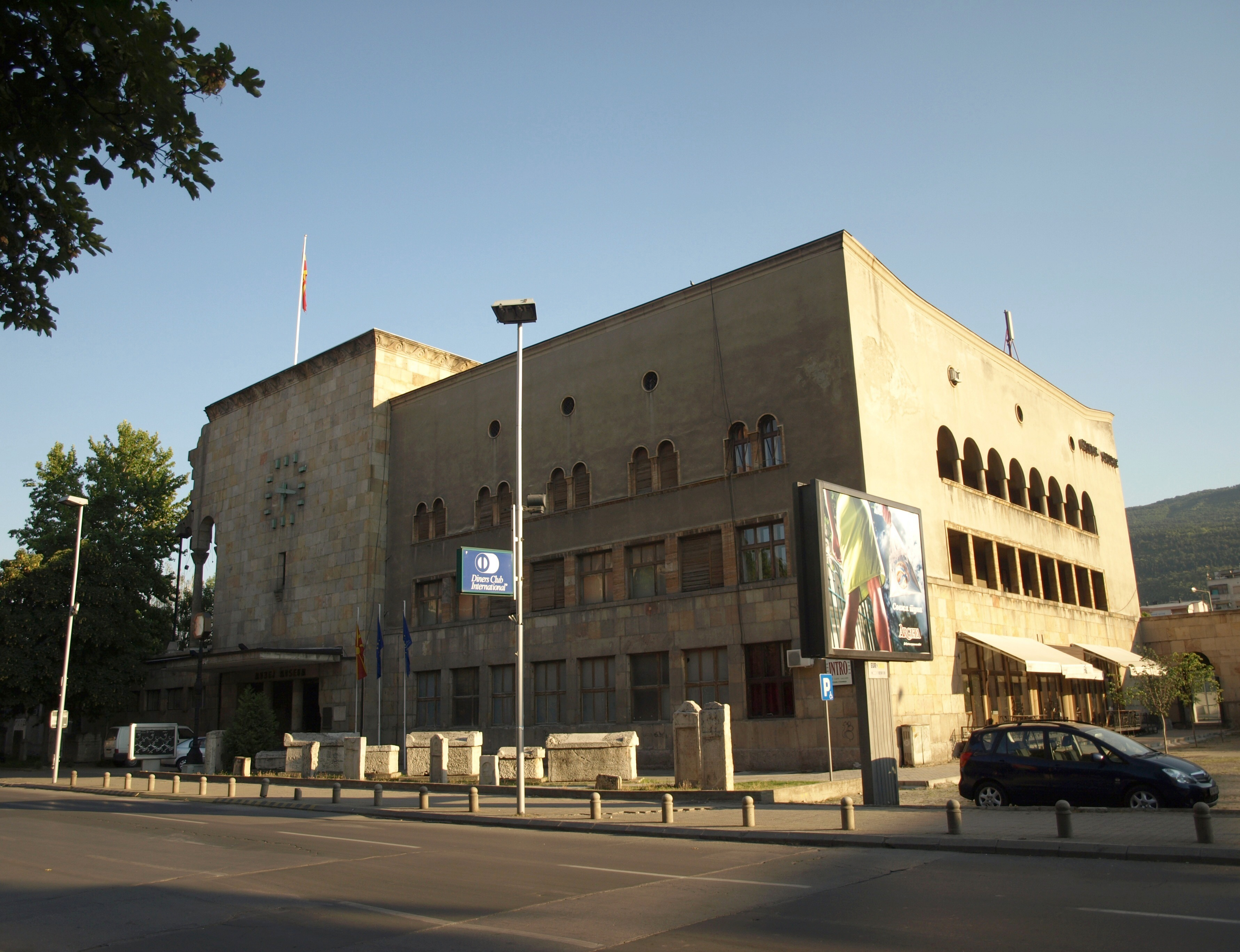 Old railway station of Skopjein the Republic of Macedonia, partly destroyed by earthquake in 1963, today National Historical Museum